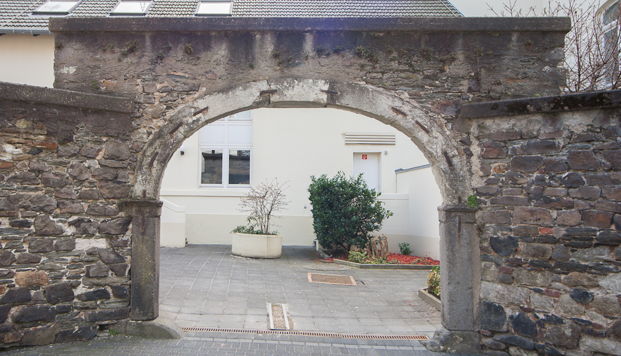 Gate to backyard of former hotel “Düsseldorfer Hof”, Rheinallee 14–15, view from street (Altenberger Gasse), Königswinter, Germany